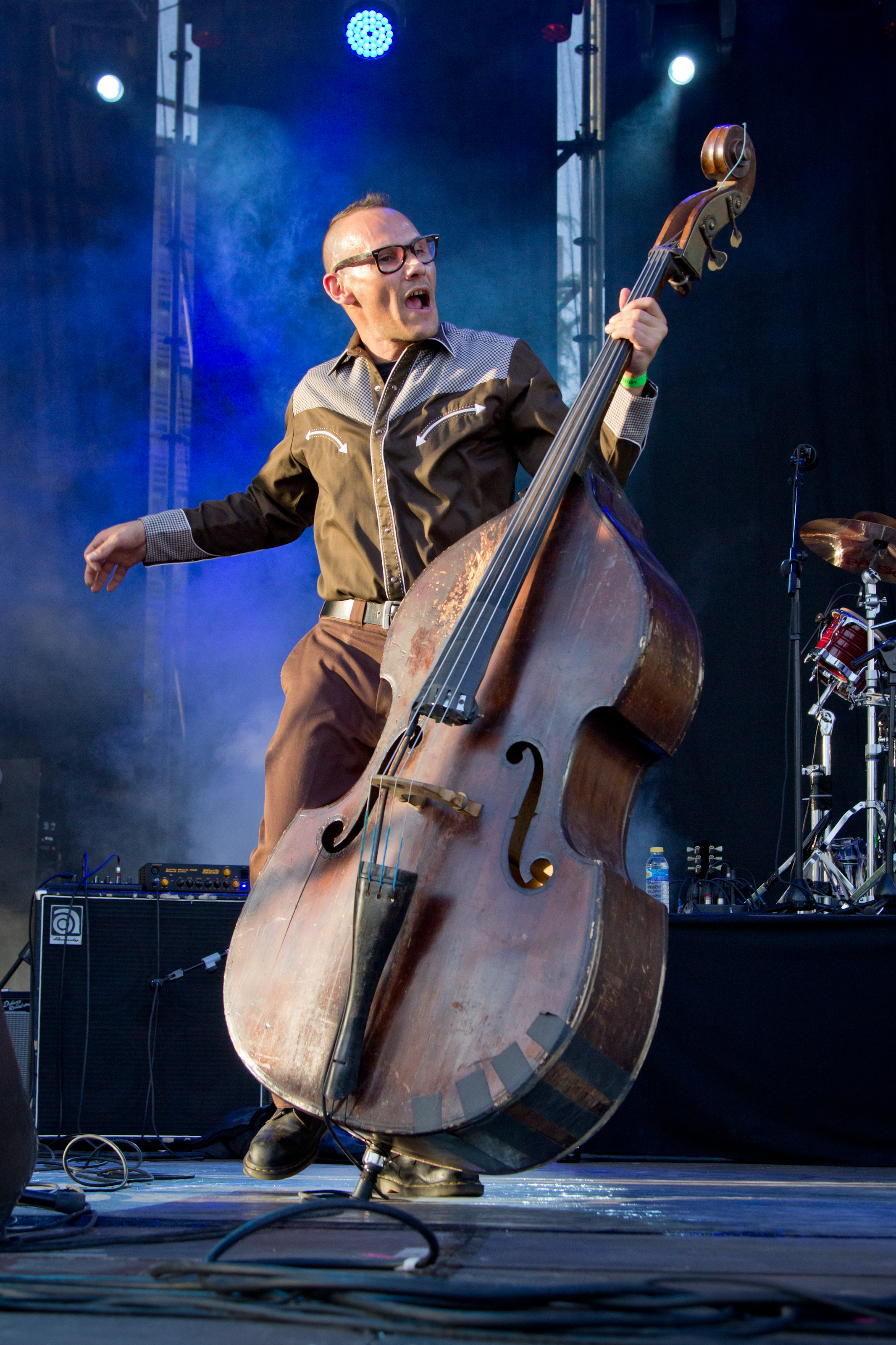 Lucky Dados at Madgarden Fest 2015, Madrid, Spain.